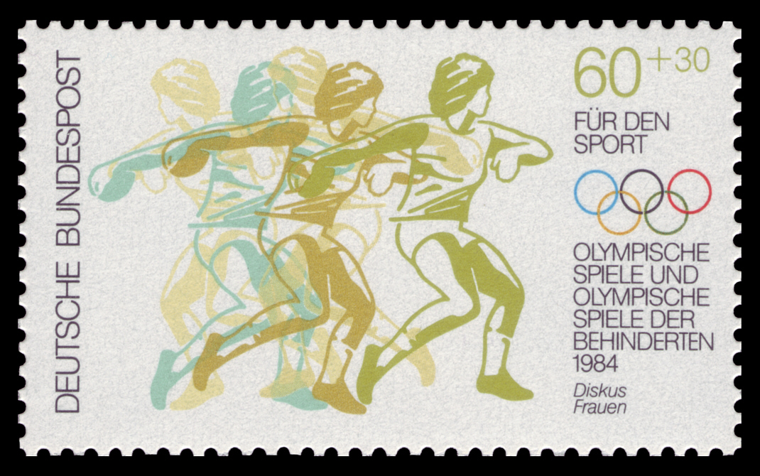 additional fees for German sports, olympic summer games in Los Angeles and paralympic summer games in New York and Illinois